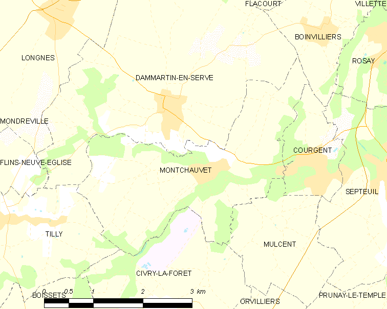 Map of French municipality Montchauvet